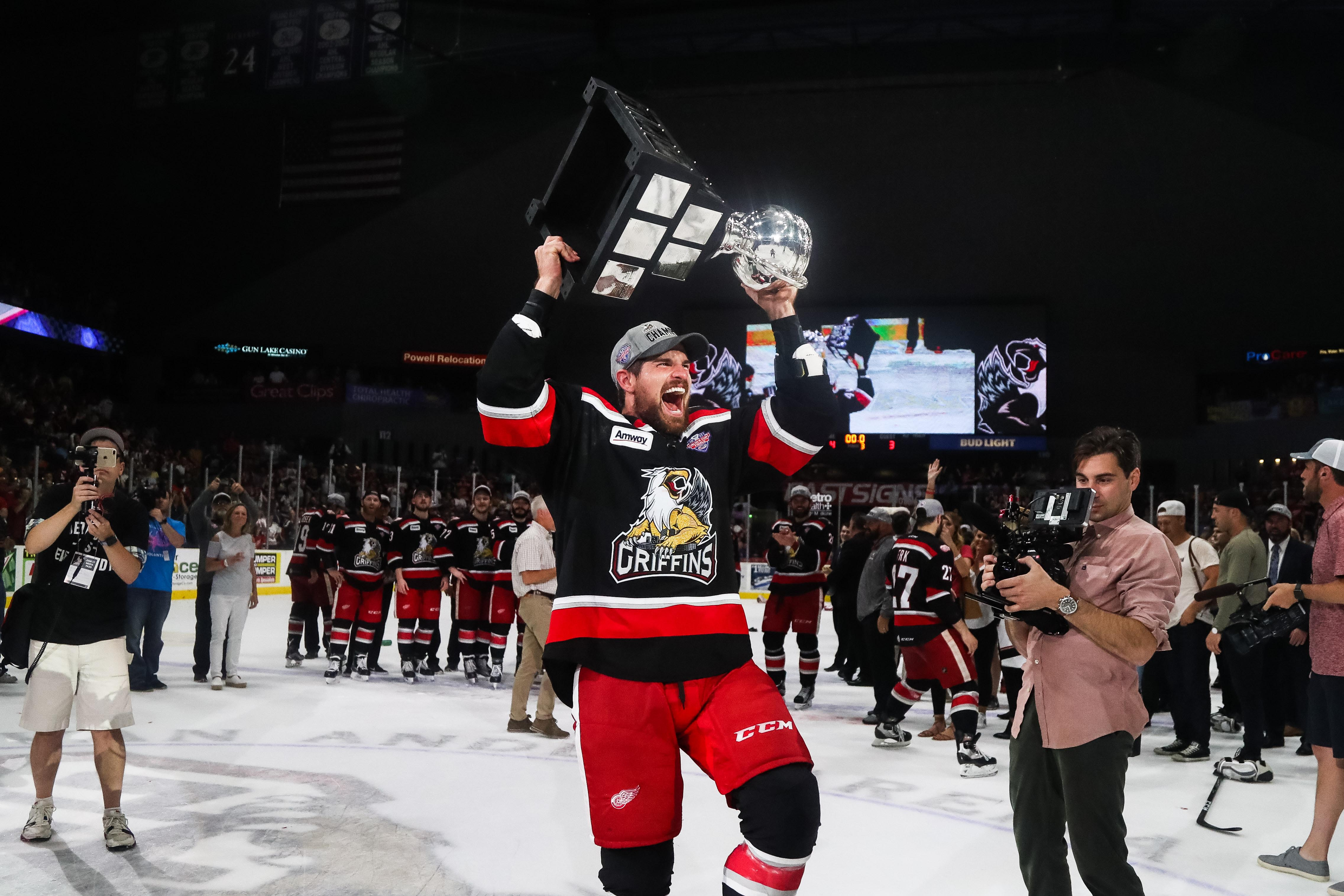 Photo: Sam Iannamico